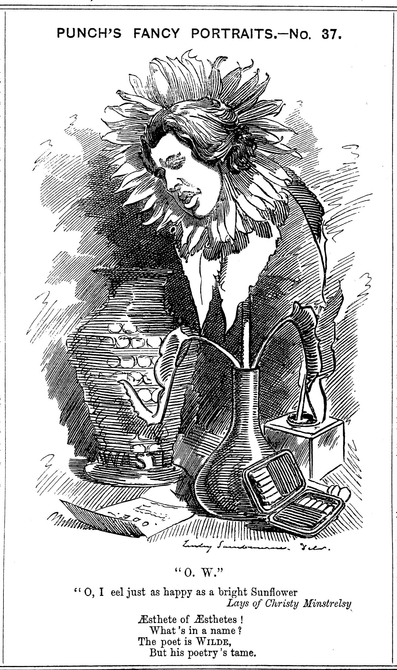 Punch's Fancy Portraits No 37: Oscar Wilde.